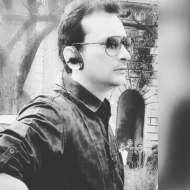 Jaideep Chopra on shoot